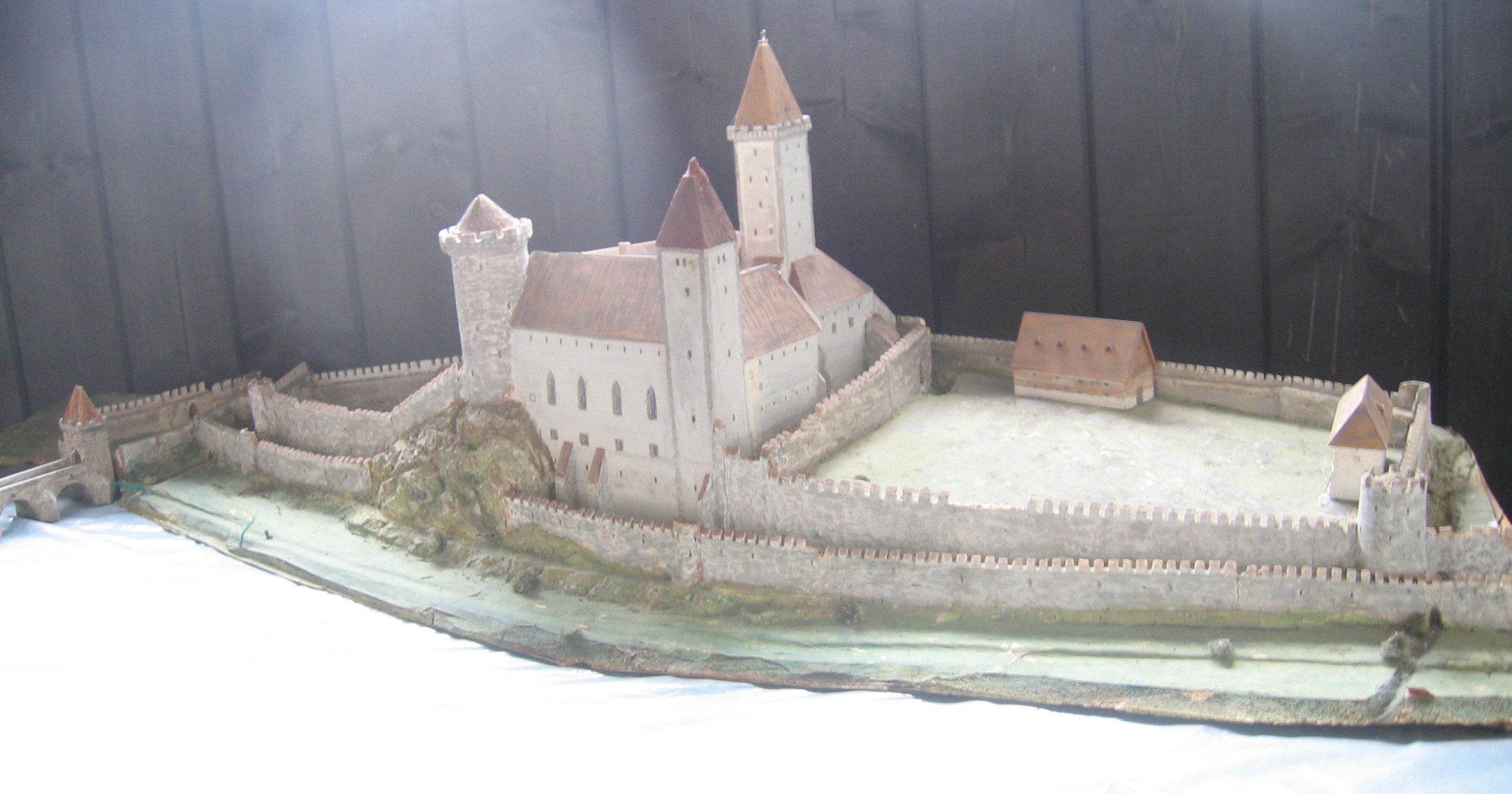 Model of the supposed original aspect of the Castle in Písek (exposition in Prácheň Museum in Písek, Czech Republic)